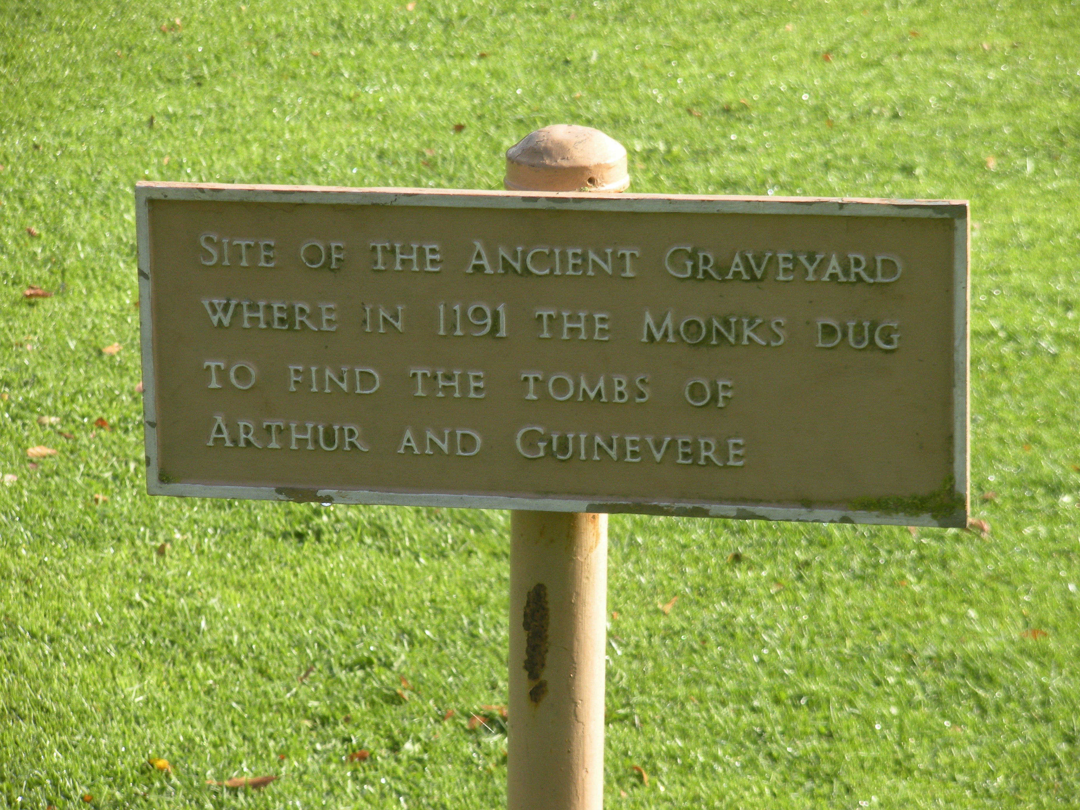 Glastombury